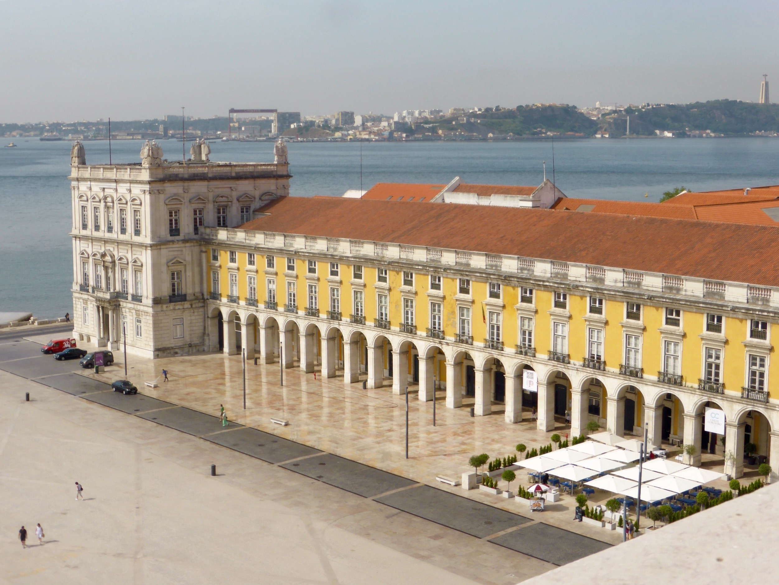 We had a week in Lisbon in early June. Had a good look around the city, a day trip to Sintra and a boat trip on the Tagus.